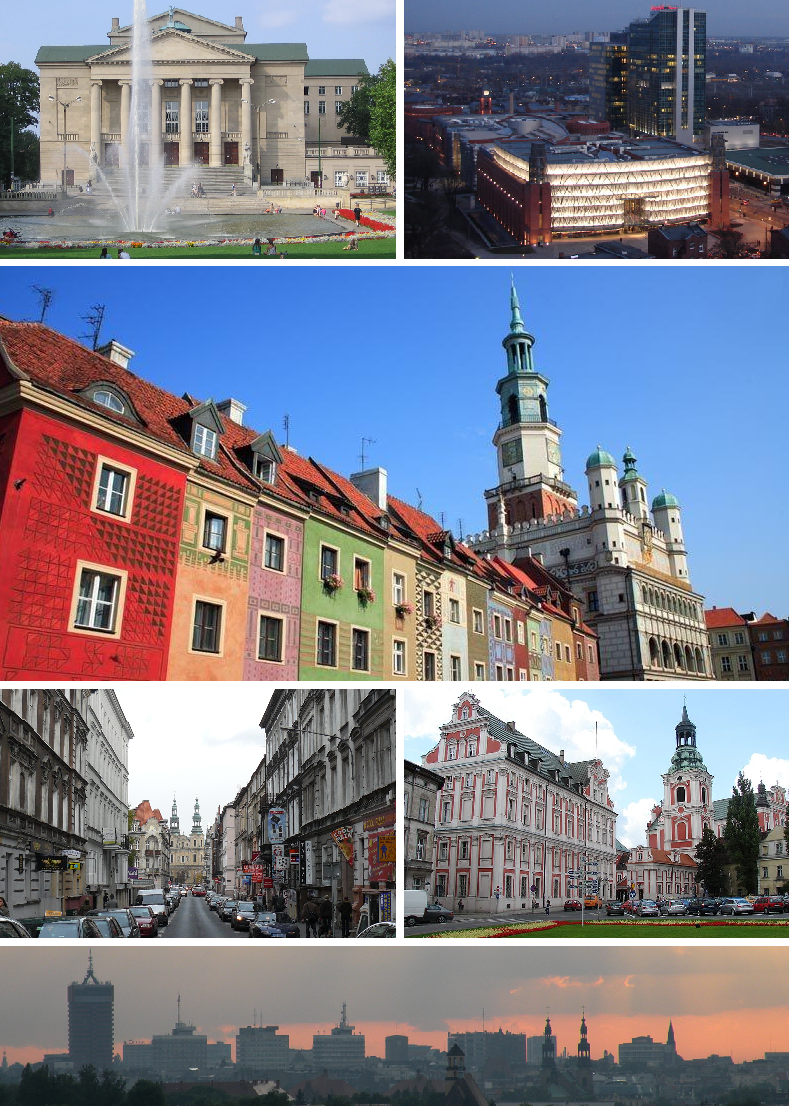 A collage of views of Poznan made from the following images from commons